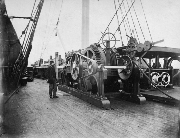 Reproduction ID: H2458 Maker: Unknown Date: 1865